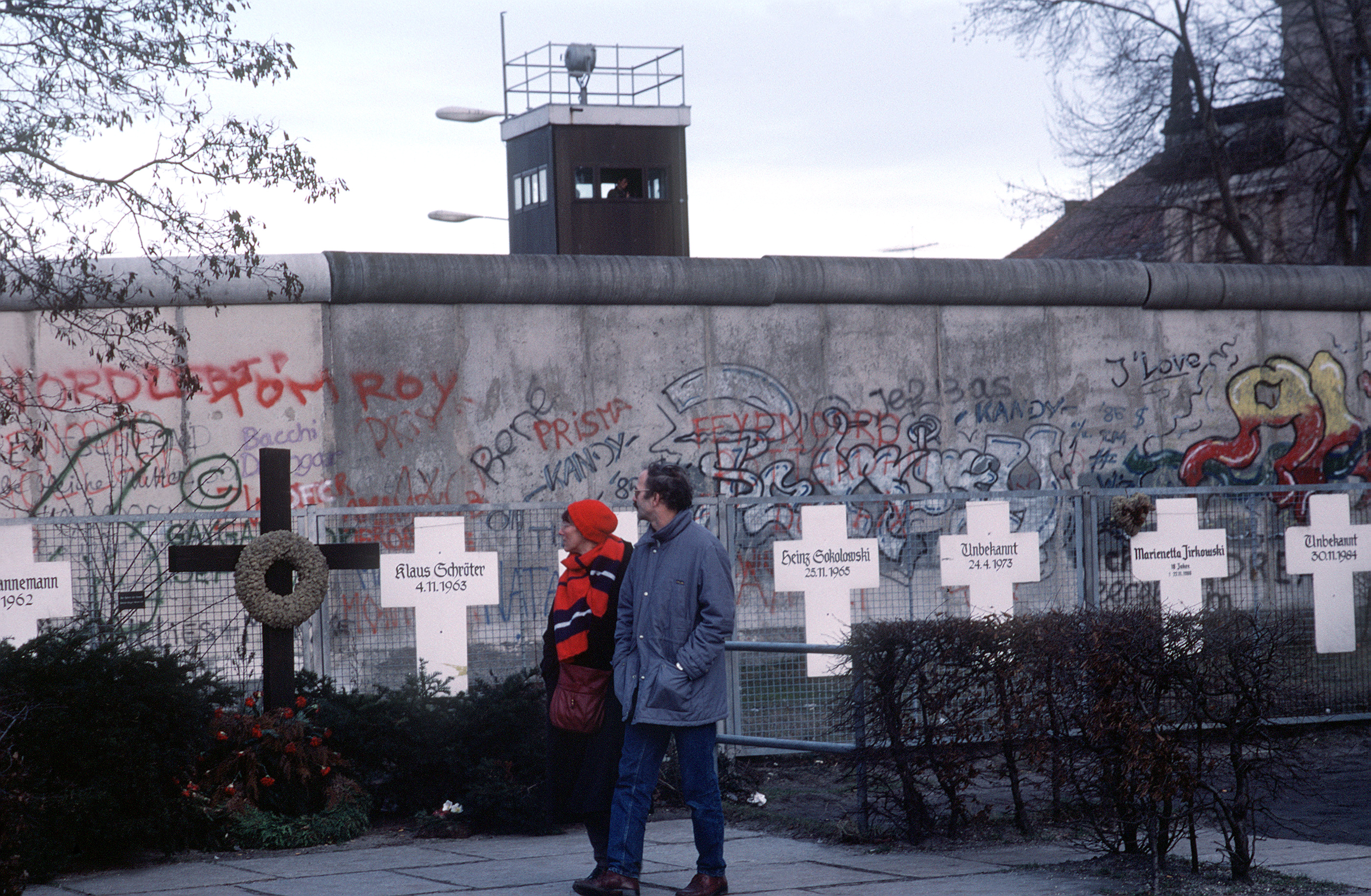 Following Germany's reunification, a couple reads grave markers of East Germans who died in an effort to escape over the BERLIN Wall to the West.